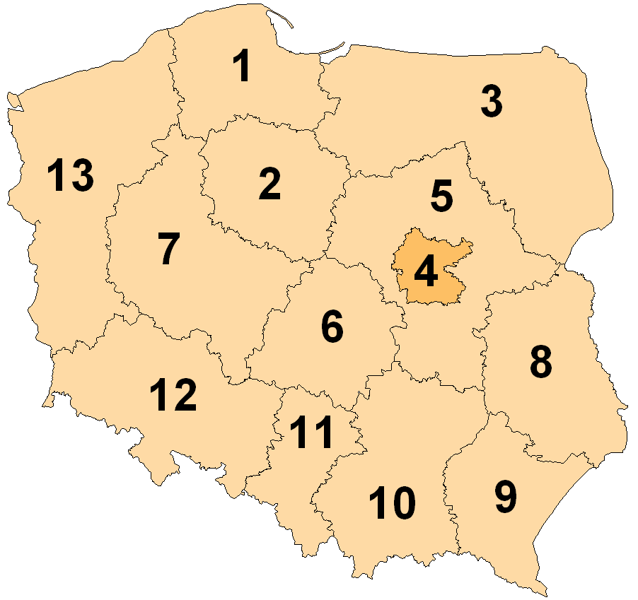 Warsaw (European Parliament constituency) - European Parliament constituencie in Poland